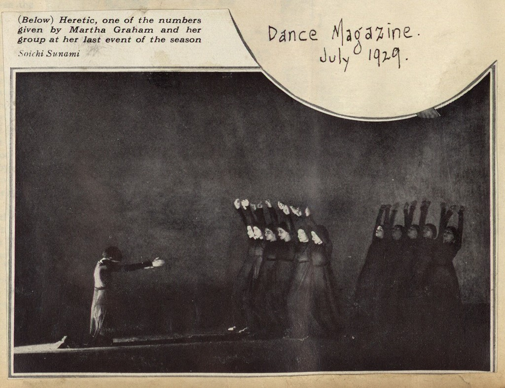 Photograph from Dance Magazine, July 1929, Martha Graham's Heretic as photographed by Soichi Sunami